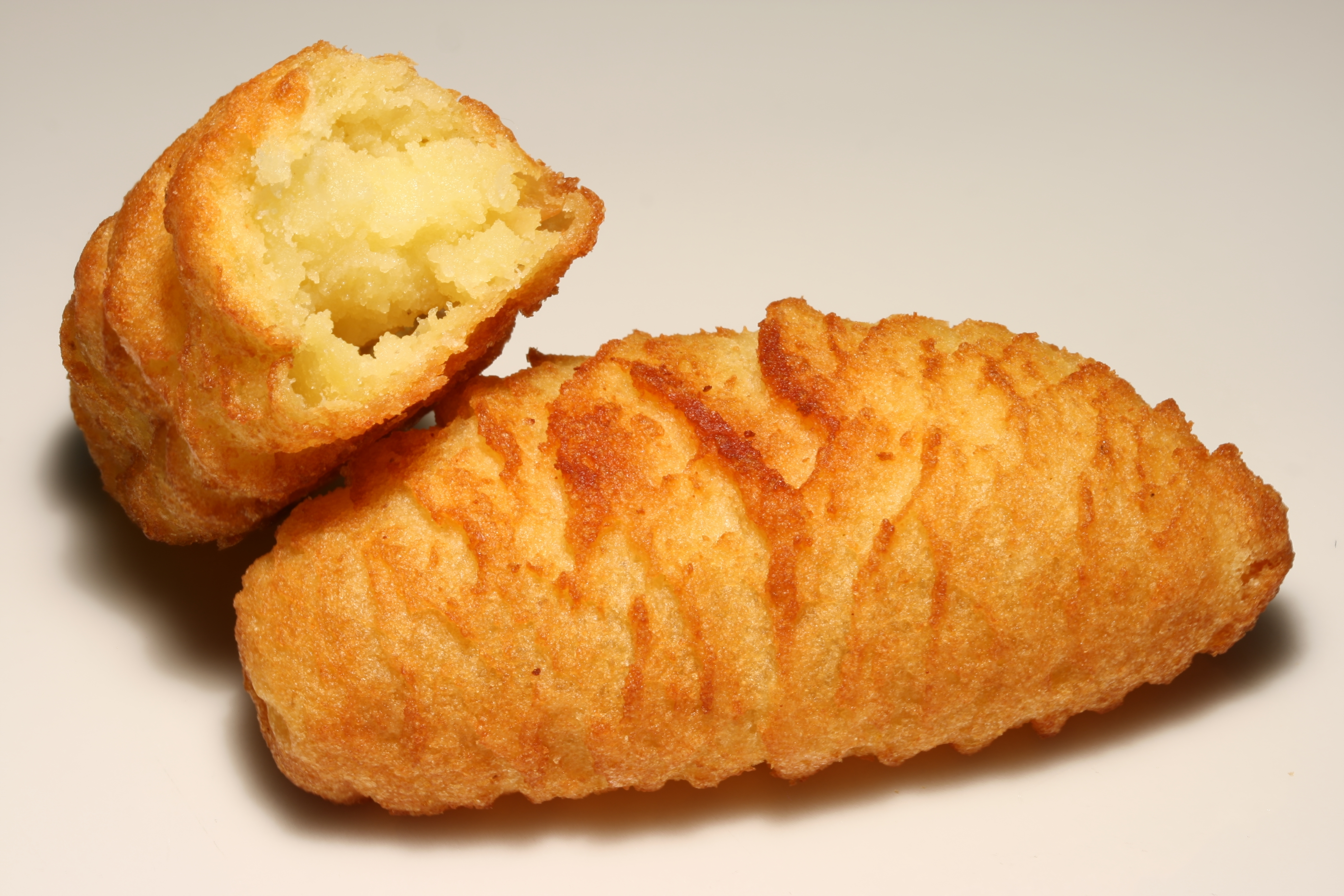 croquettes